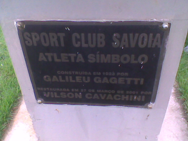 statue of the athlete symbol of Savoia